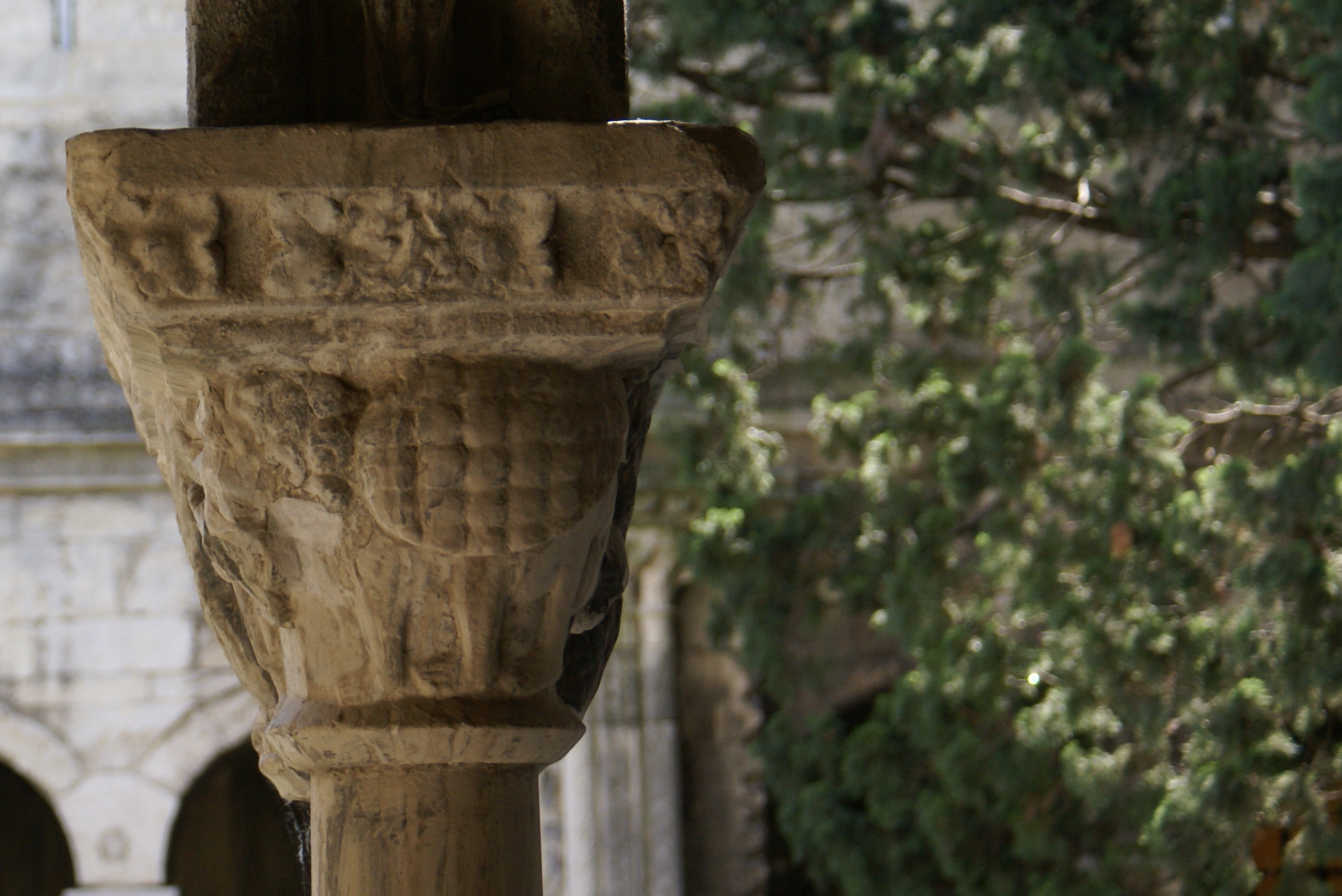 This carved column capital depicts the Tarrasque, a mythical beast that combined a body shaped as a mix between a dragon and a bear with a turtle's shell, scorpion's tail, and a lion's head. In Provencal folklore, the Tarrasque terrorized the countryside but was charmed by the Christian icon Saint Martha, who brought it back to the city as a tame animal but it was destroyed by the frightened villagers. As it did not fight back, the villagers realized they had been wrong and named the town in its honor - Tarascon.